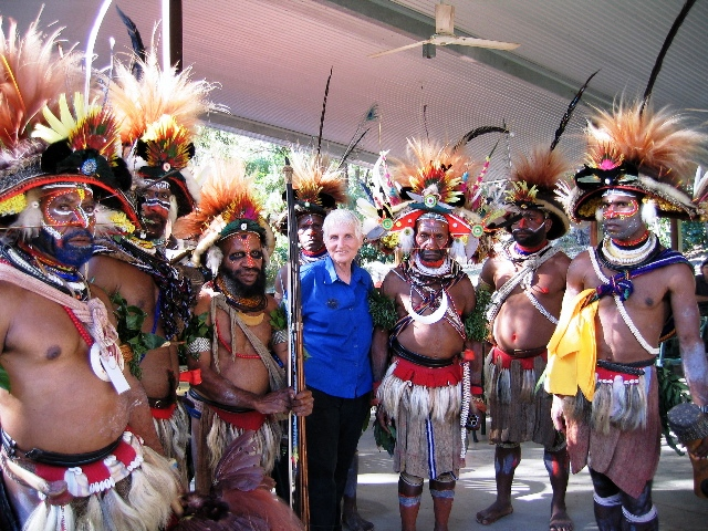 I took this photo myself in Cooktown in 2005